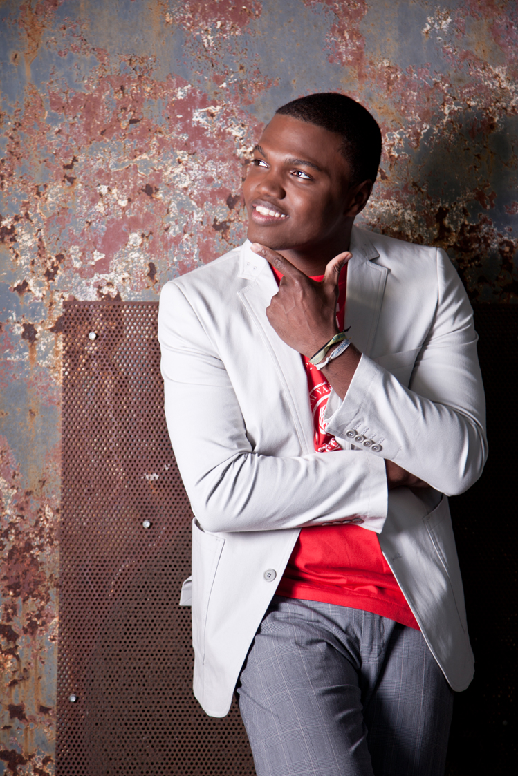 Photo by: Lina-Schütze